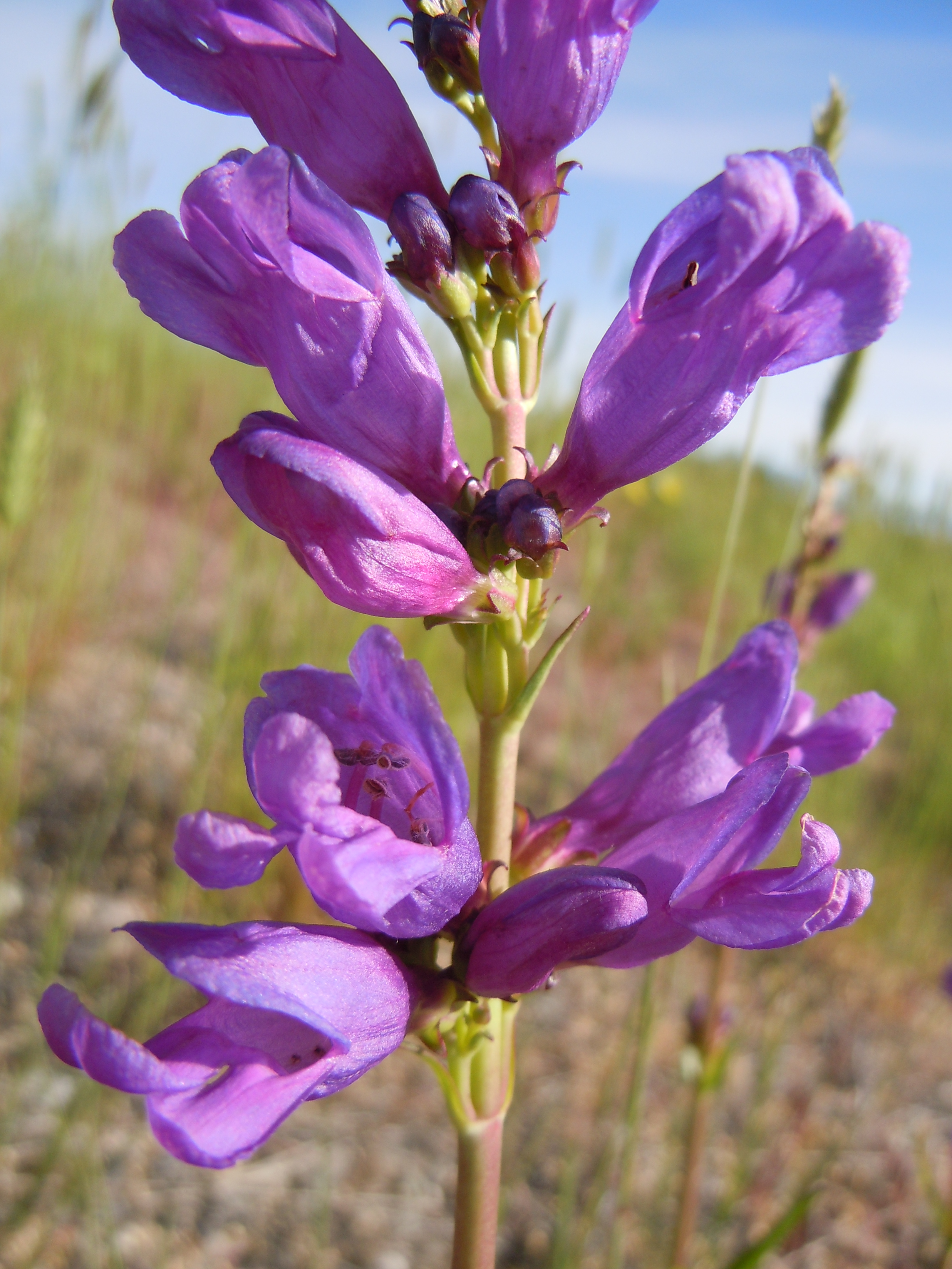 This species of Penstemon is confined to roadsides and is distinct from the common blue-flowered Penstemon cyananthus out on the sagebrush steppe with its lavender petals and smaller anthers.